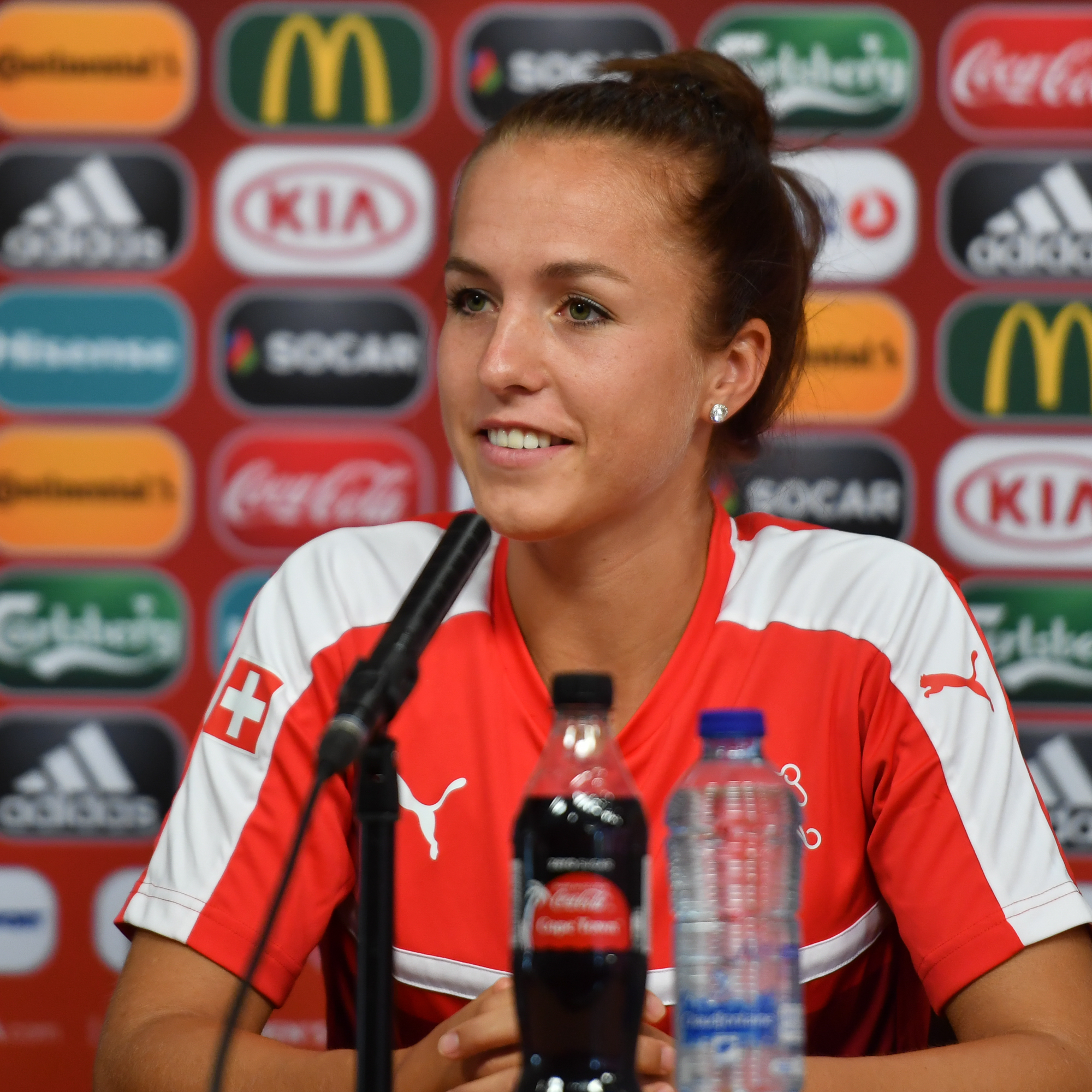 18/7/2017, Deventer, Netherlands, sports, soccer, UEFA Women's Euro 2017 - Austria vs Switzerland.